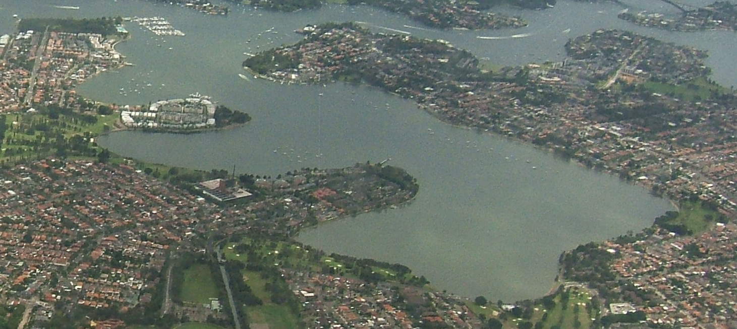 Aerial view of the said location in Sydney